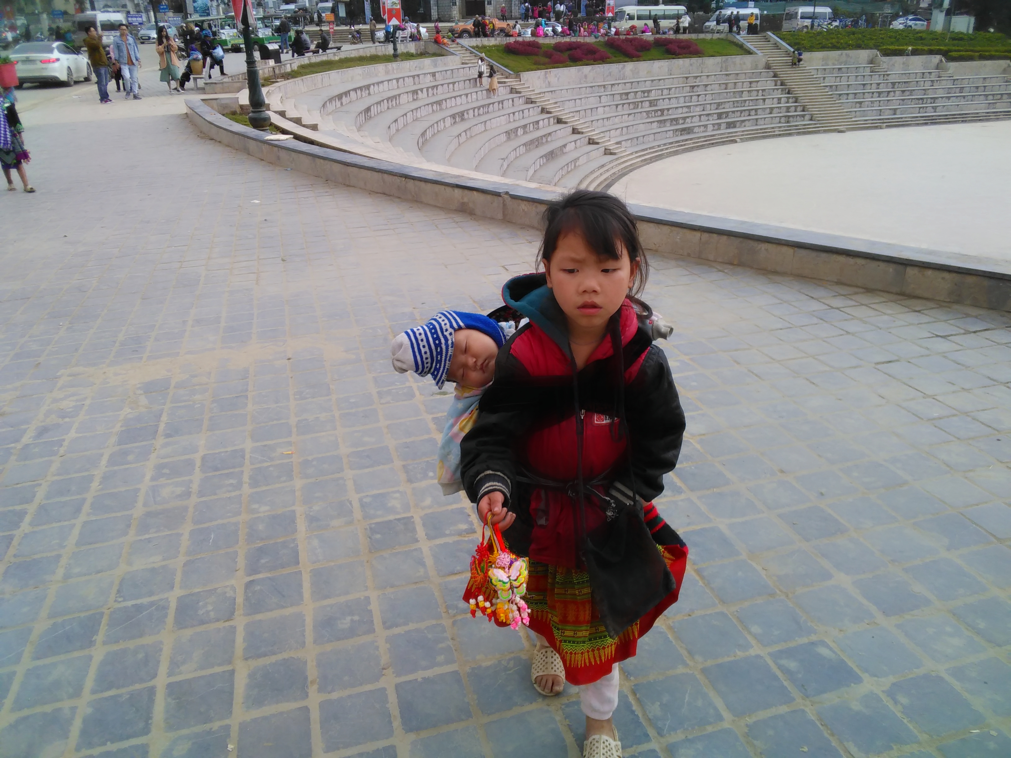 Children at Sapa